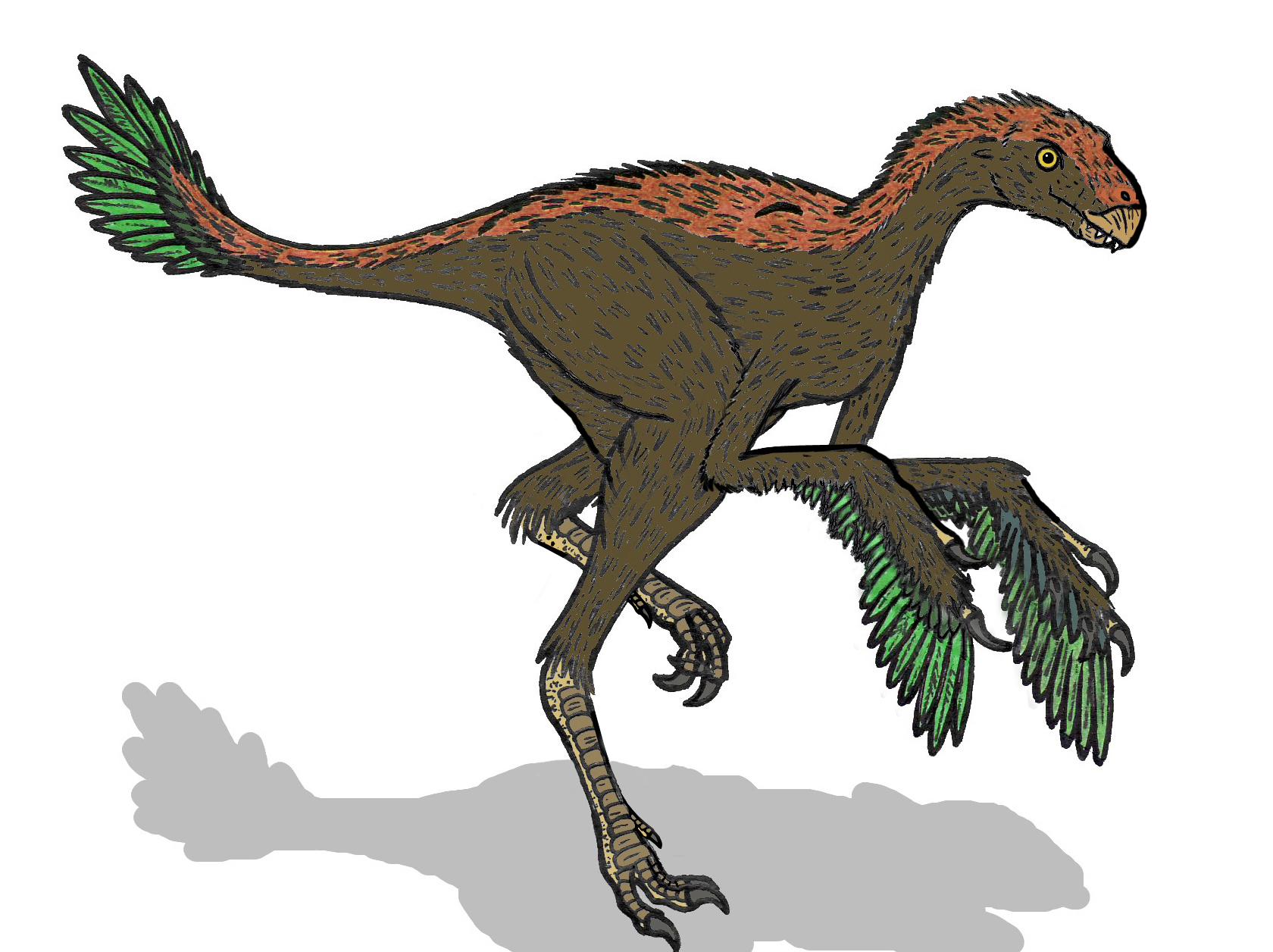 Illustration of Protarchaeopteryx, a feathered dinosaur (or a flightless bird (according to Alan Feduccia)), found in China. This is a new version of an older illustration, "Protarchaeopteryx JST 398", which was inaccurate in the reconstruction of the head and the wings. Here, the skull is based on Incisivosaurus, since the skull of Protarchaeopteryx is poorly preserved ( see ' ). The wings are based on Caudipteryx.